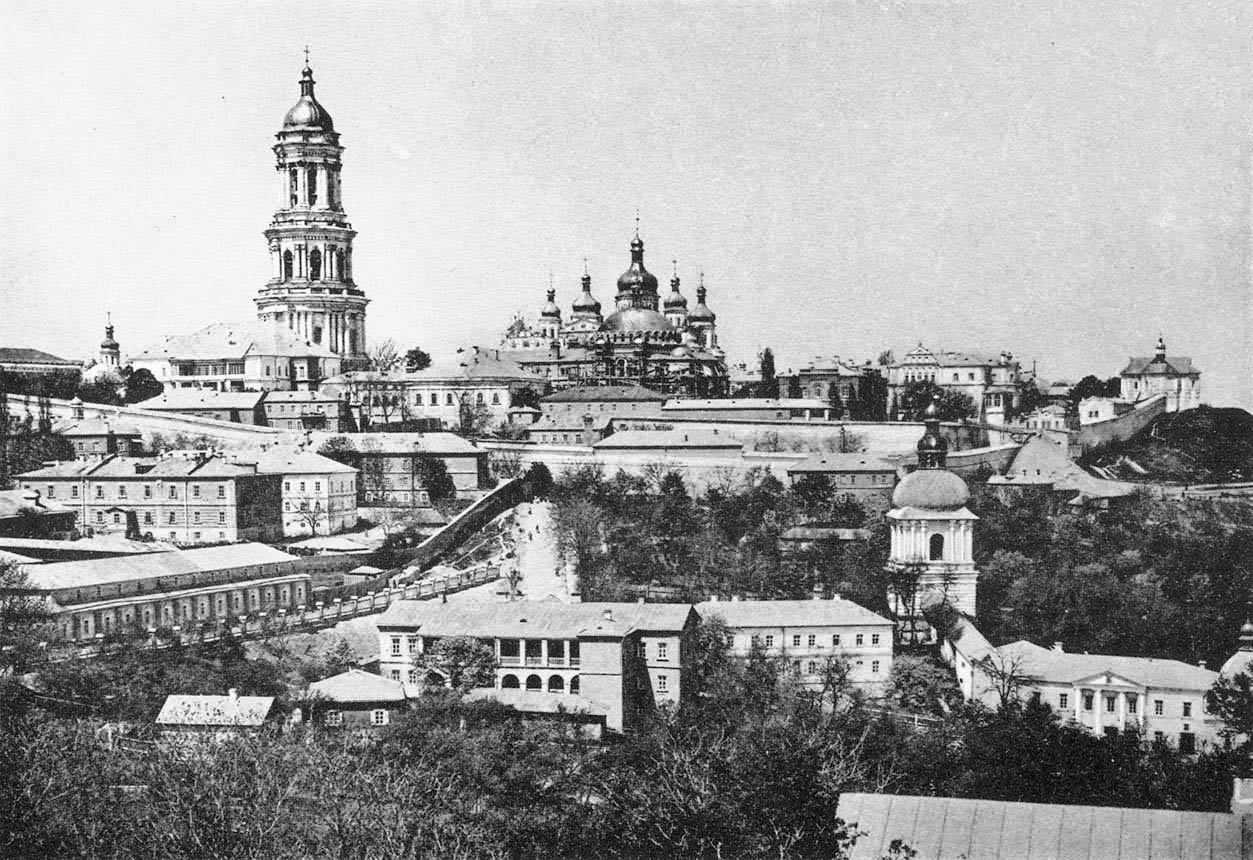 Kiev Cave Monastery, Russian Empire